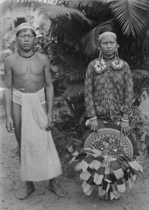 Dayak man and woman from Apo-Kajan in Central-Borneo.